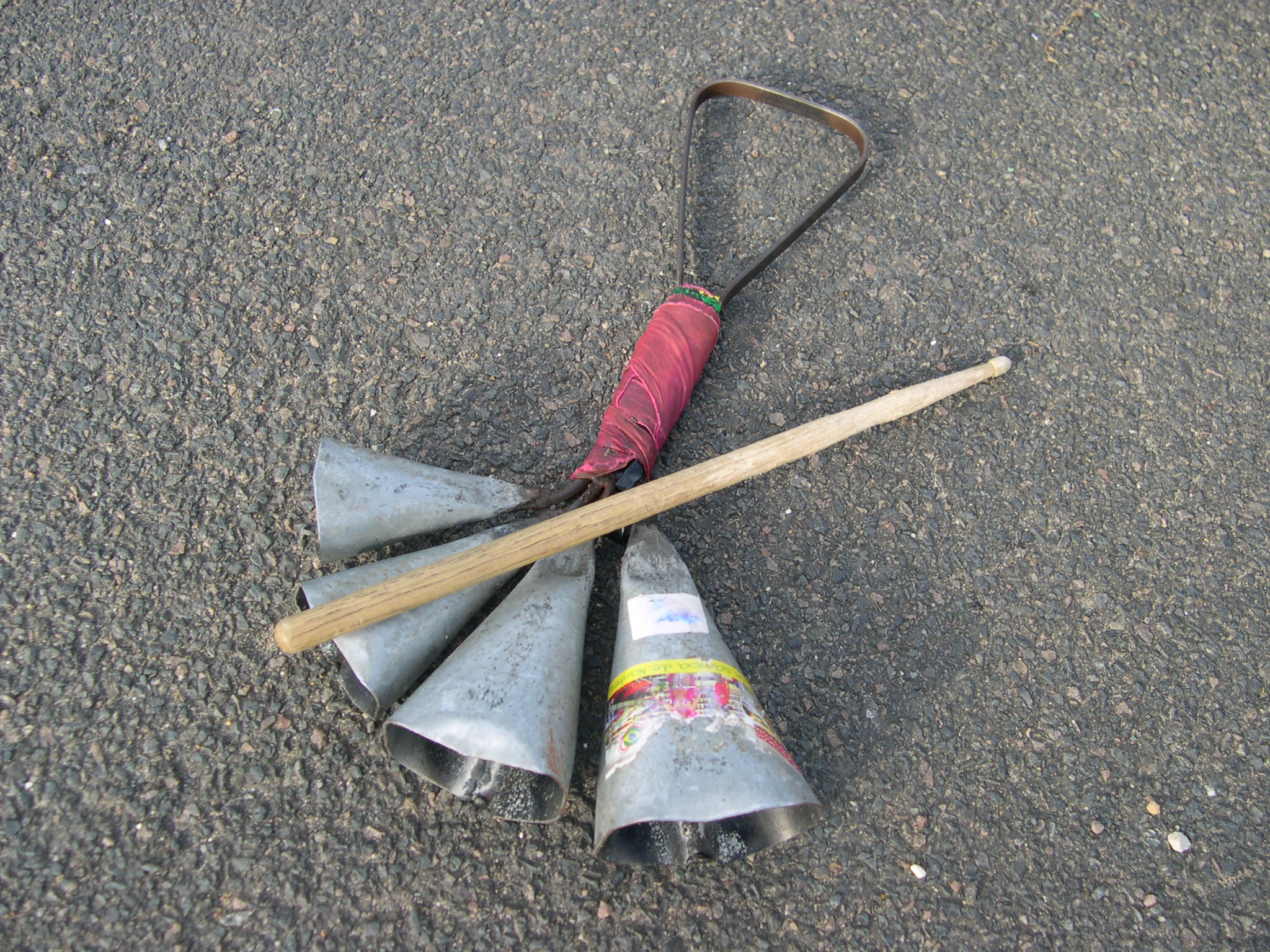 Steel agogo with four bells and its wood stick.